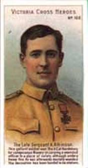 Photo of Victoria Cross recipient Alfred Atkinson, migrated from the Victoria Cross Reference site with permission. Photo submitted by Franklyncards.